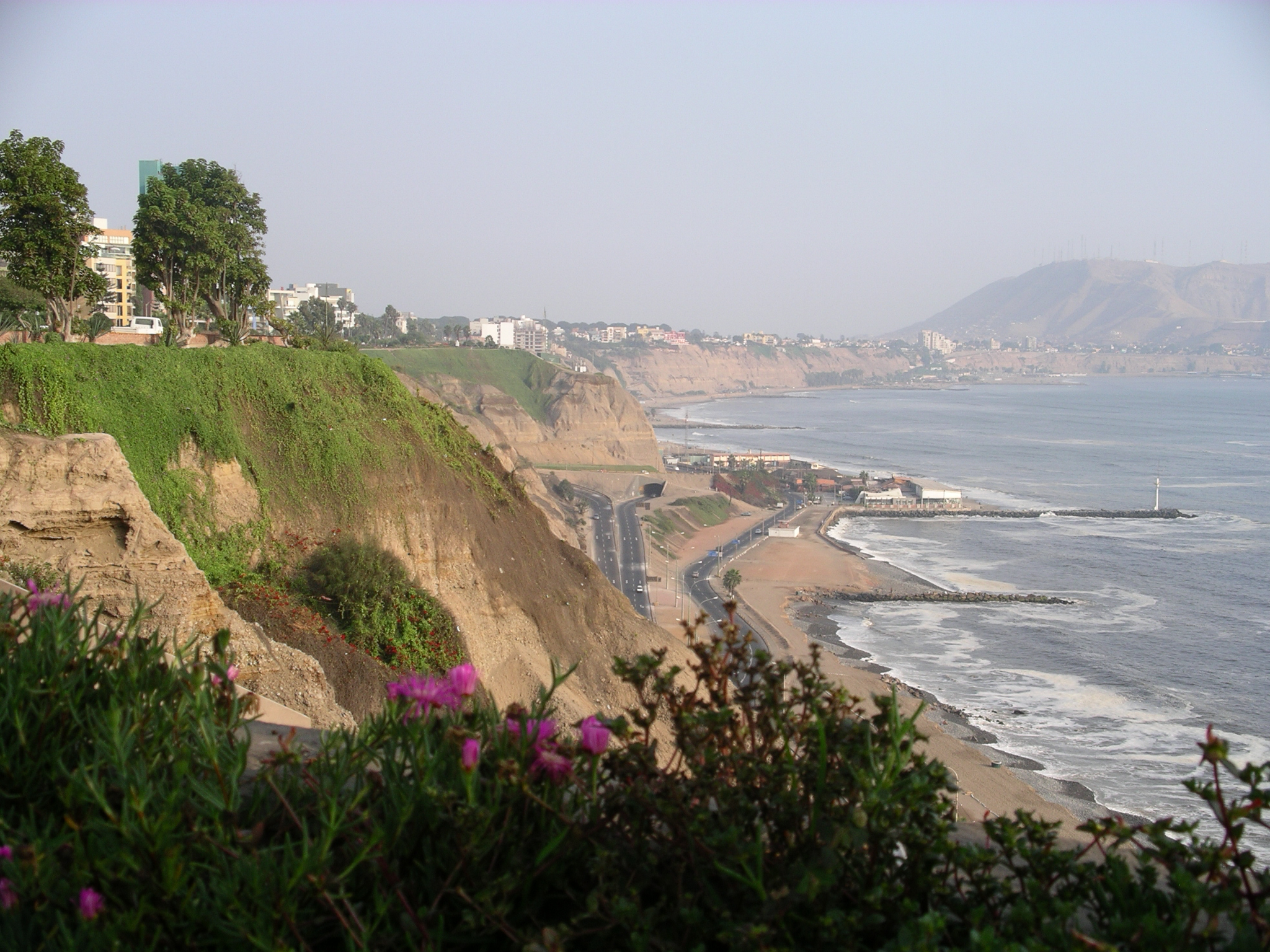 The Costa Verde in Miraflores, Lima, Peru. Lima is built on alluvial sediments of the Río Rímac.